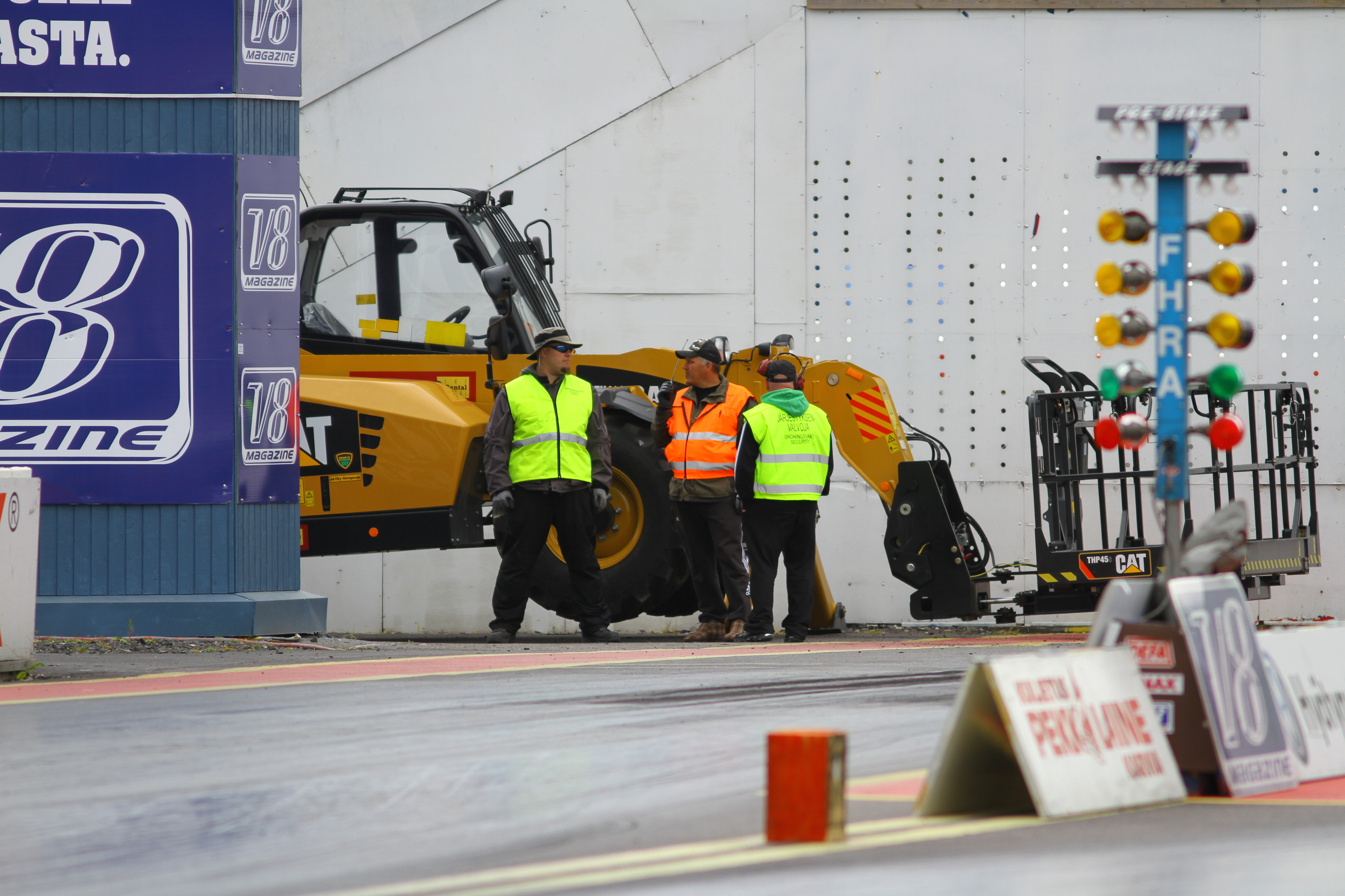 FHRA Kamasa Drag Race Week at Alastaro Circuit, Finland.